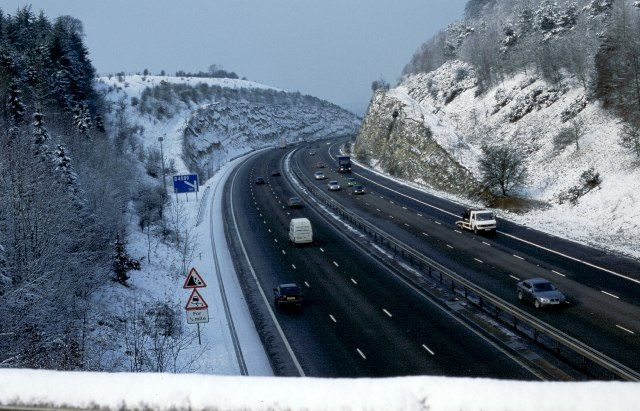 M40 - Chiltern Cutting - Stokenchurch. Looking Westerly towards Oxford.The winter of 2004.